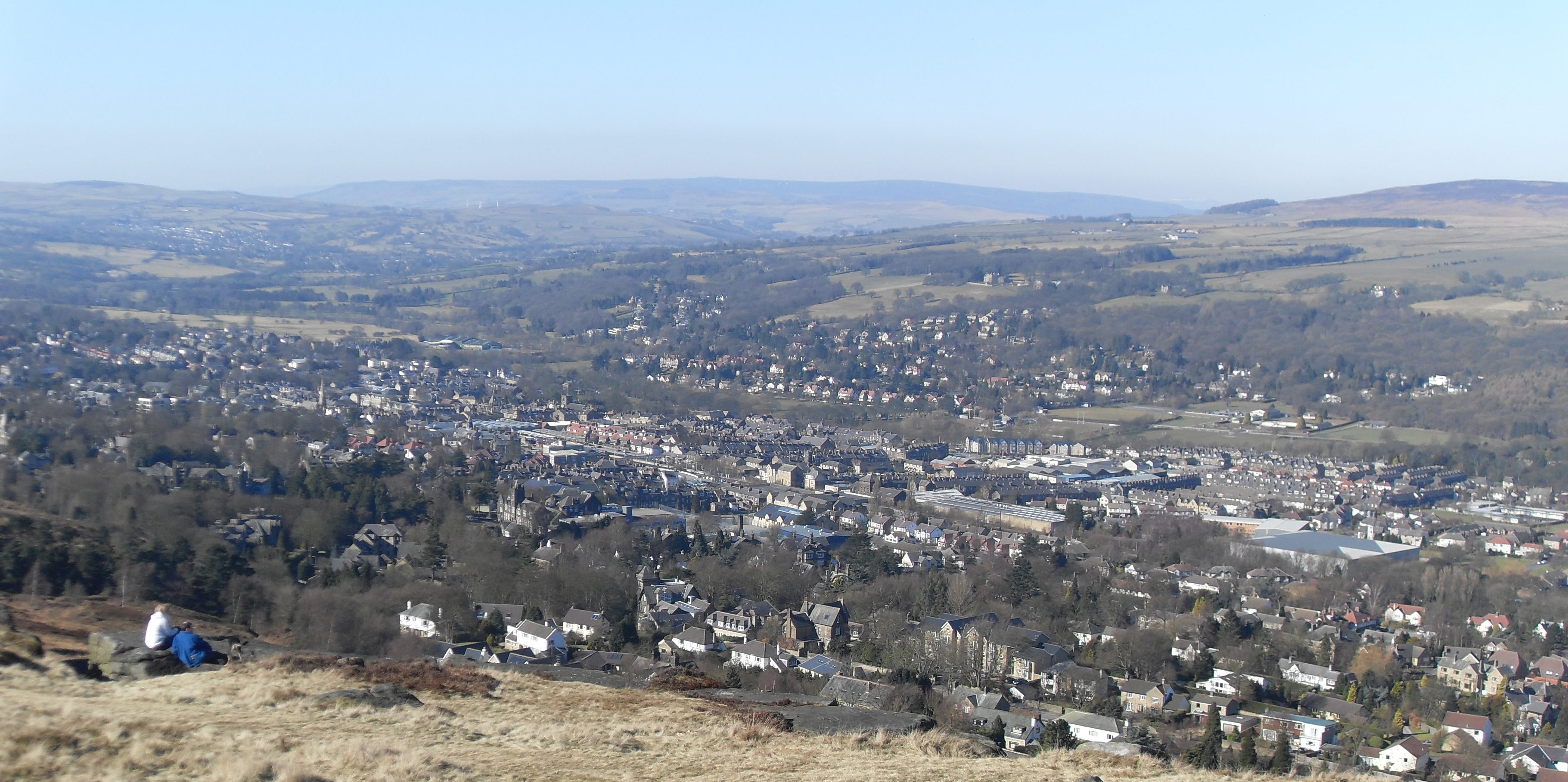 Towards Ilkley from the Cow and Calf rocks